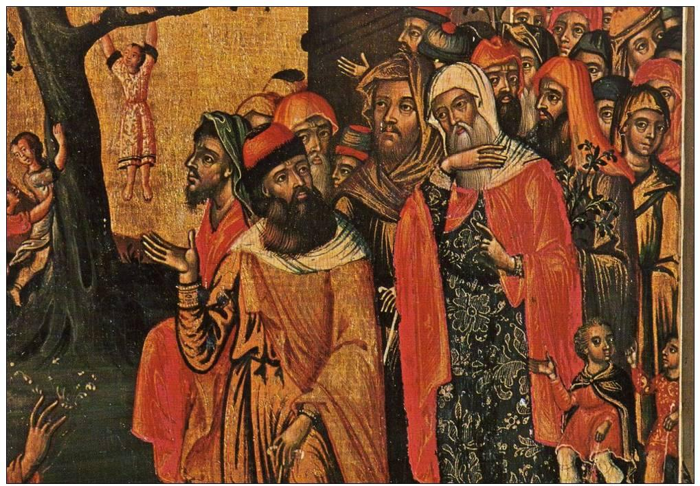 Monastery Sveti Jovan Bigorski in the Republic of Macedonia. Jesus_enters_Jerusalem